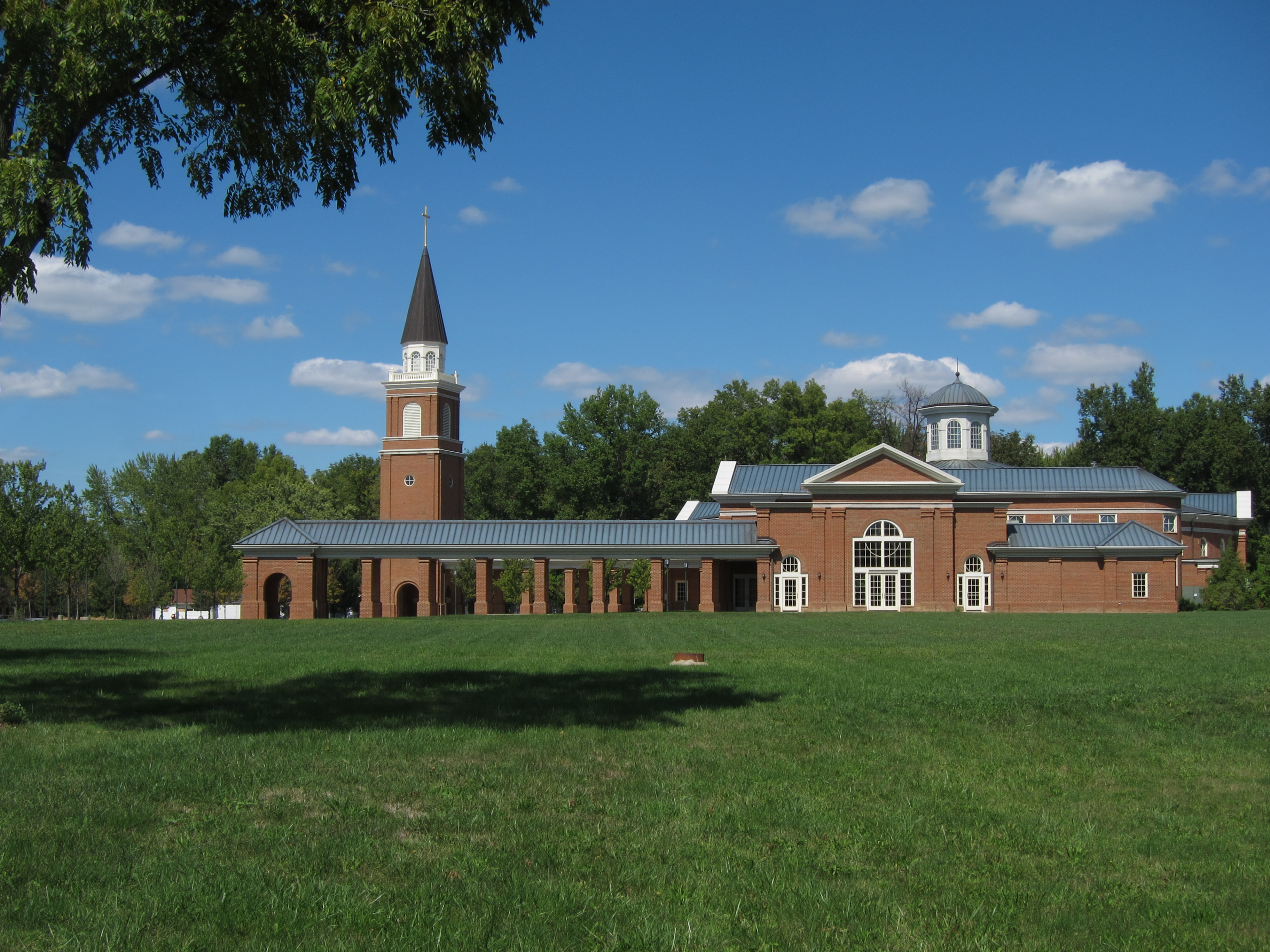 Church of the Resurrection (New Albany, Ohio) - exterior, view from the road